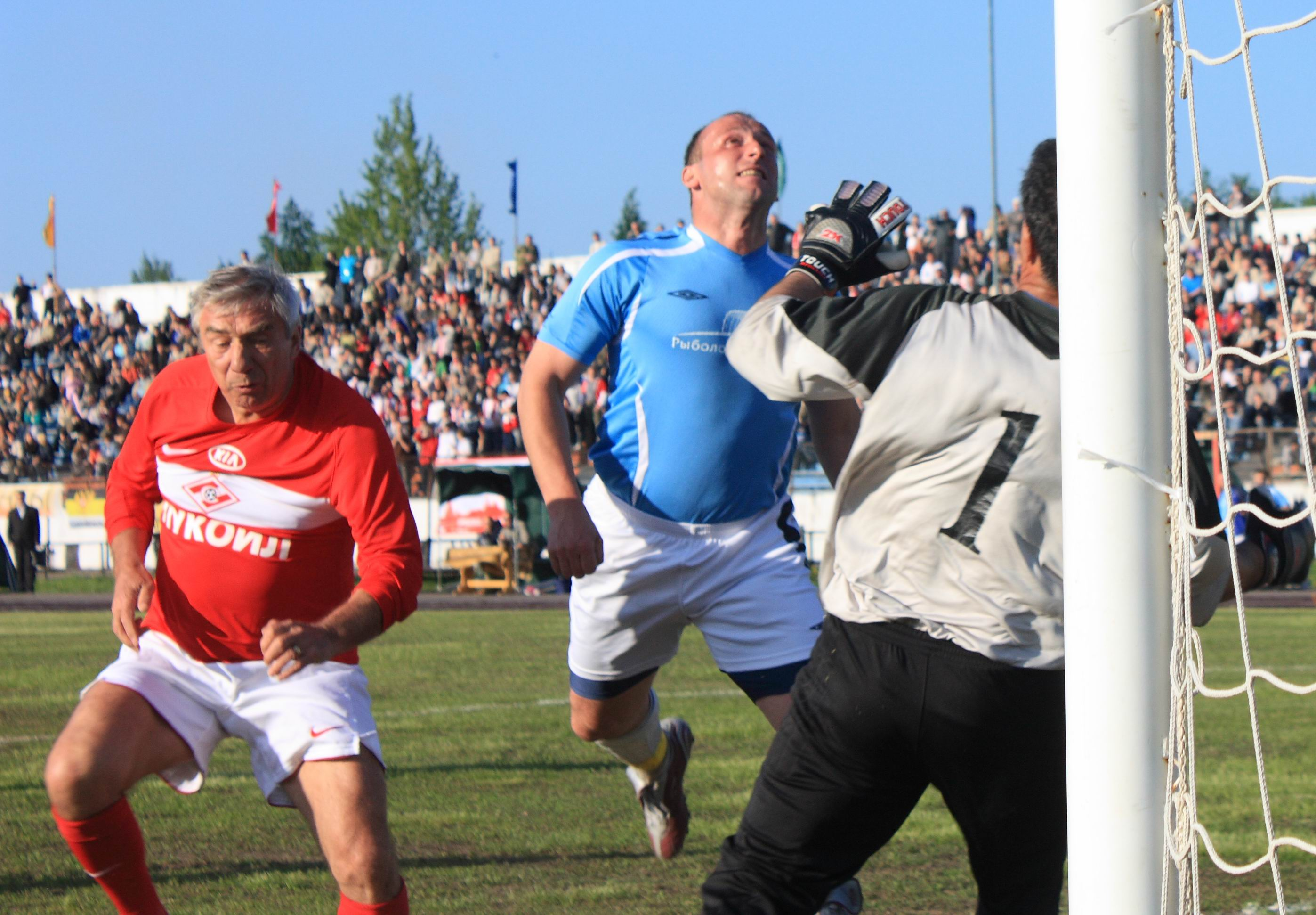 Georgi Aleksandrovich Yartsev (Russian: Гео́ргий Алекса́ндрович Я́рцев) (born April 11, 1948, Nikolskoye, Kostroma Oblast, Russia, former USSR) is a soccer coach and former player,[1] until 2005 the head coach of the Russian national team